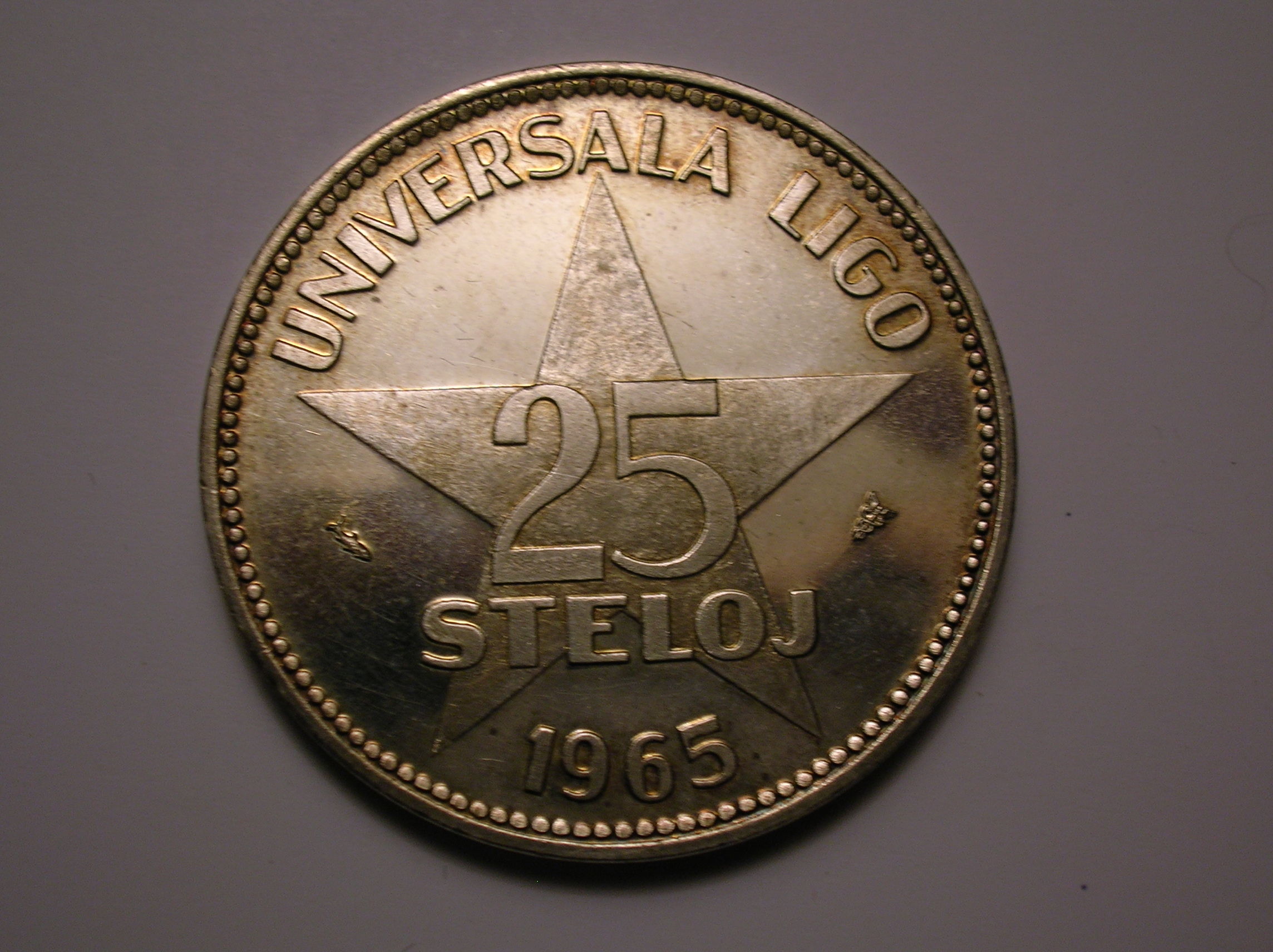 A 25 Steloj Coin - Esperantis Currency - 1965